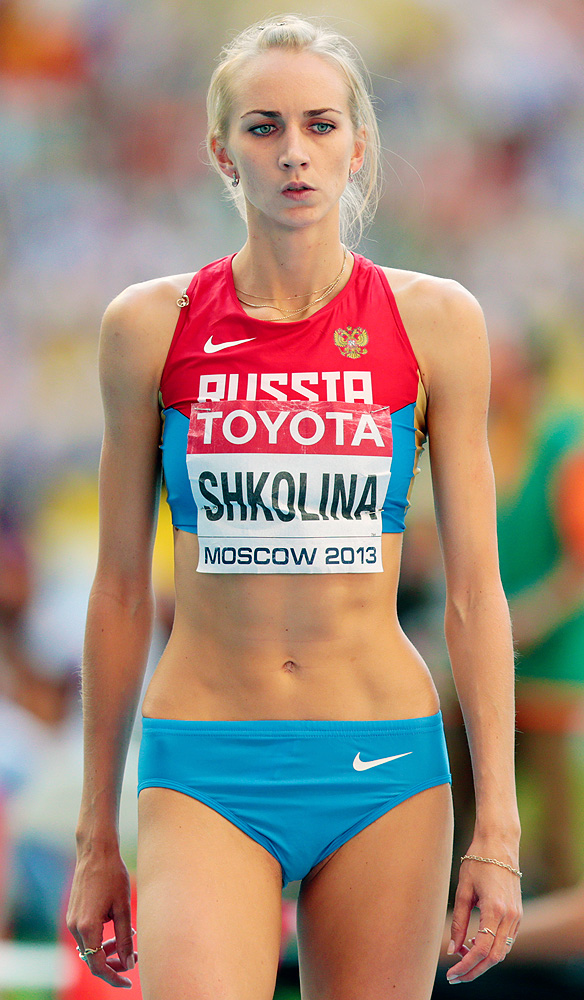 Svetlana Shkolina on 14th IAAF World Championships in Athletics